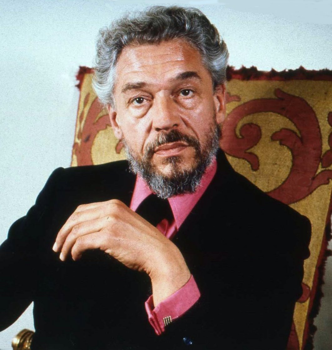 The British actor Paul Scofield (1921-2009) portrayed by Allan Warren at the photographer's studio in London, England.